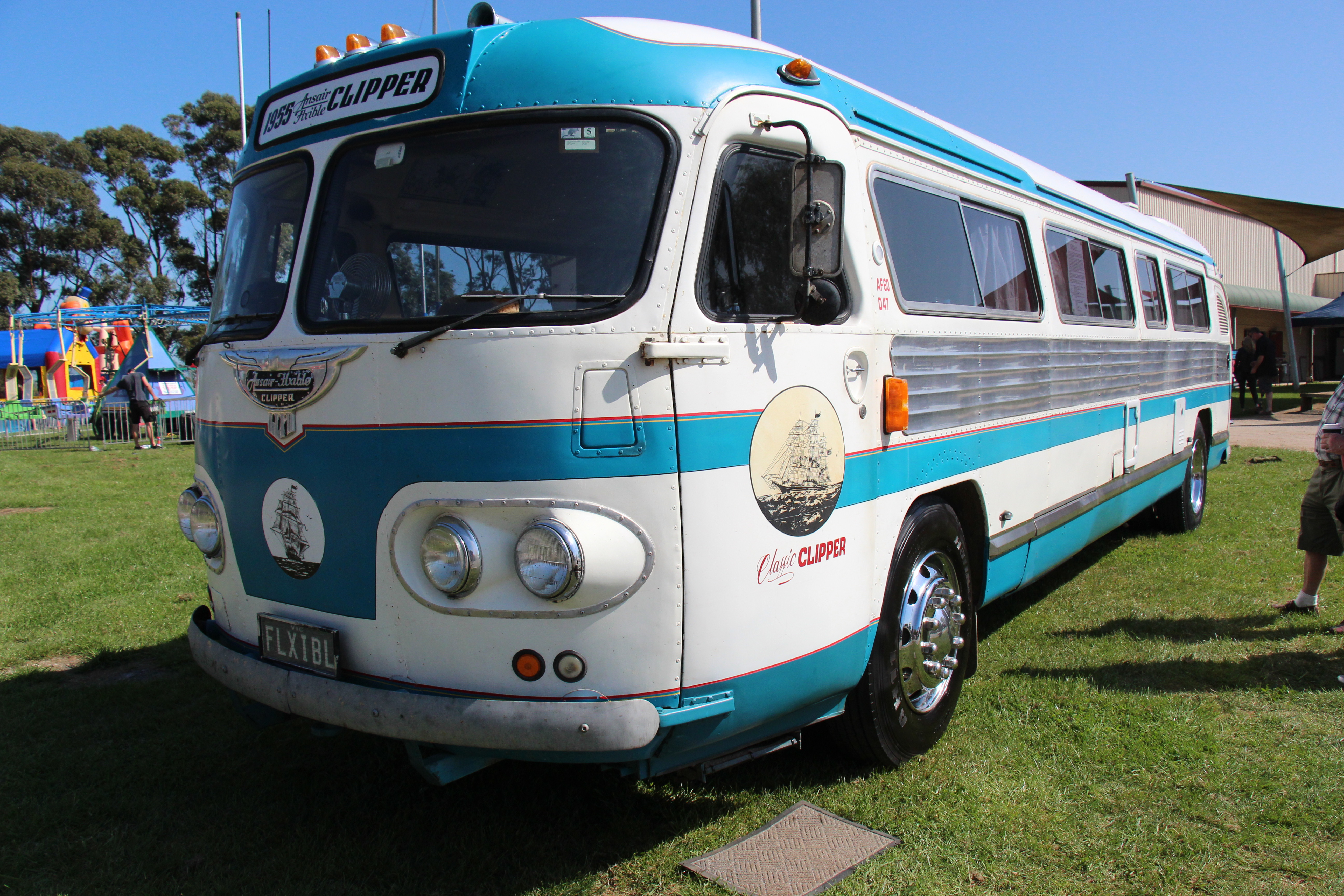 In 1948, Pioneer Tours imported their first Flxible Clipper from Flxible in the US. After evaluation by Pioneer, Melbourne company Ansair pty Ltd, also part of Ansett, obtained a licence from the Flxible Company to build the Clipper in Australia. Ansair built 131 'Ansair Flxible Clippers' between 1950 and 1960, both for the Ansett organisation and other operators. Most of the coaches built here were 33 feet long, seated 29 or 33 passengers depending on reclining or fixed seating, had full air brakes, sliding windows and public address systems. Engines, at the rear, were either a Leyland, Cummins, Deutz or G.M. diesel.